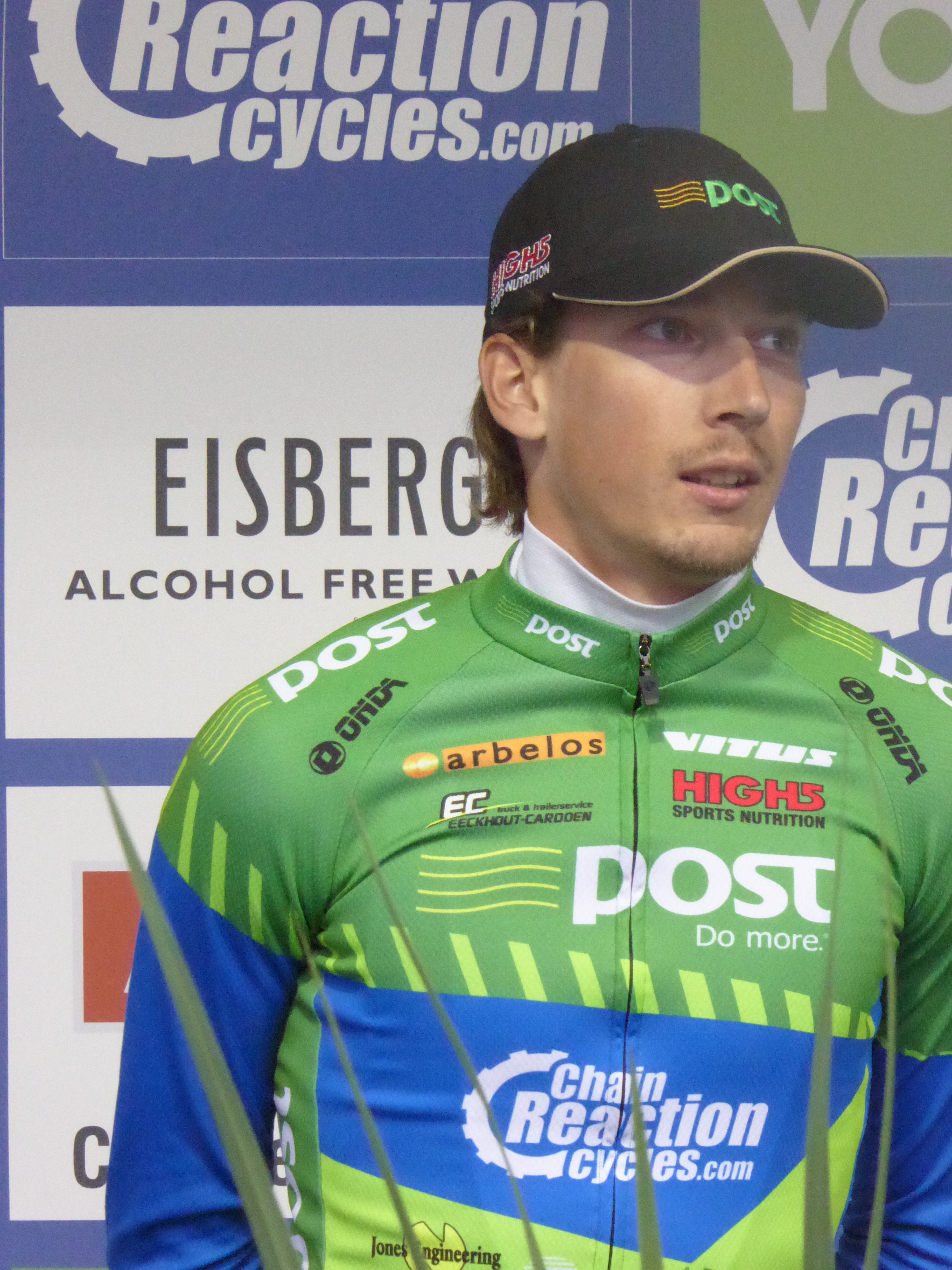 Jasper Bovenhuis (An Post-Chain Reaction), pictured at the 2016 Tour of Britain team presentation in Glasgow on 3 September 2016.